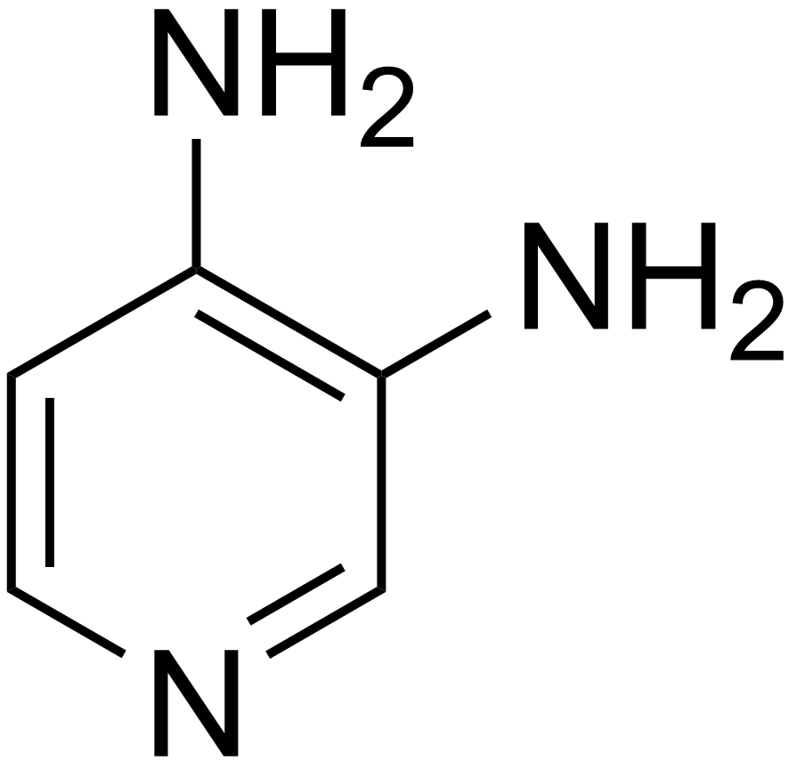 chemical structure of 3,4-Diaminopyridine